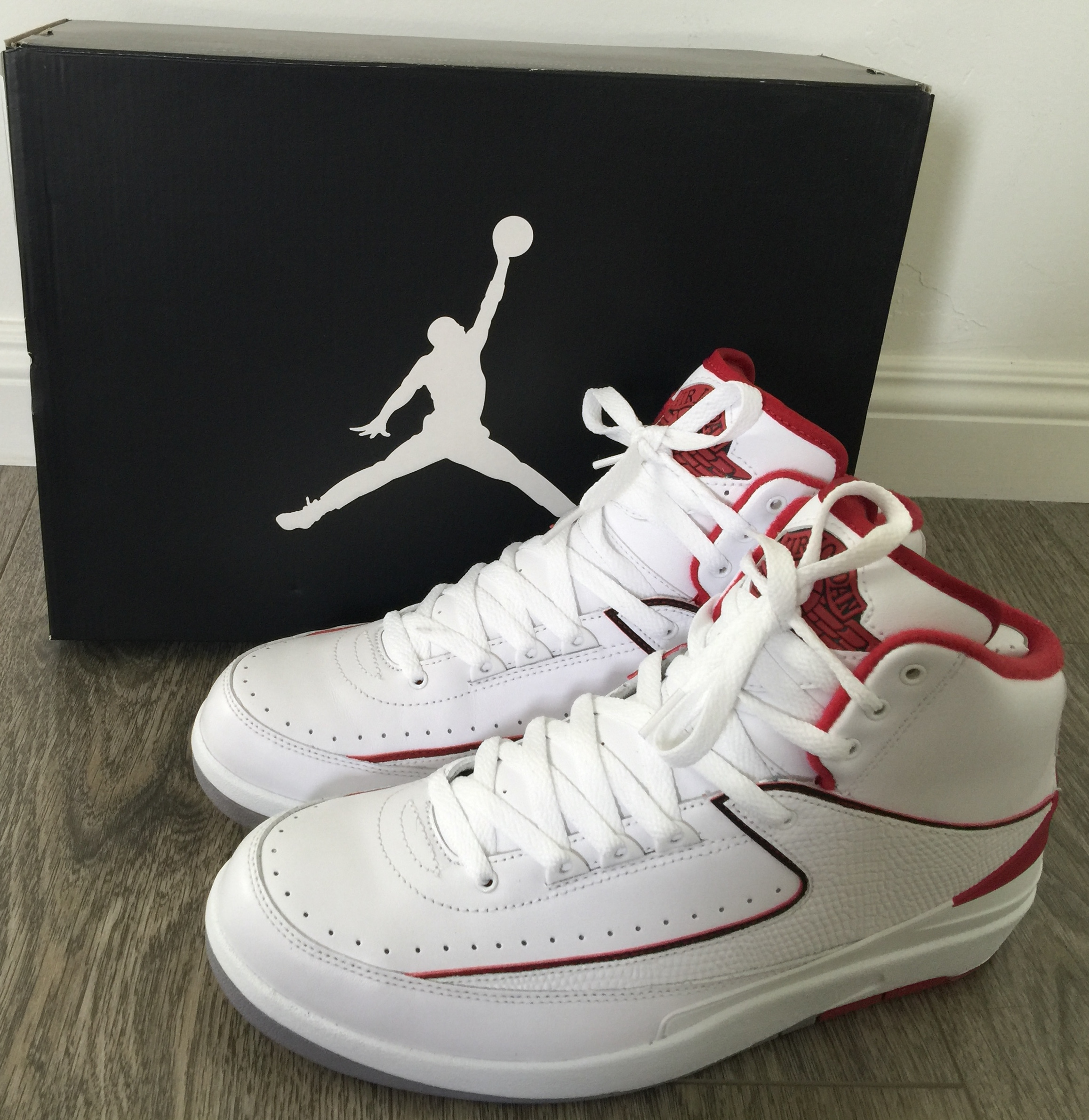 Nike Air Jordan II